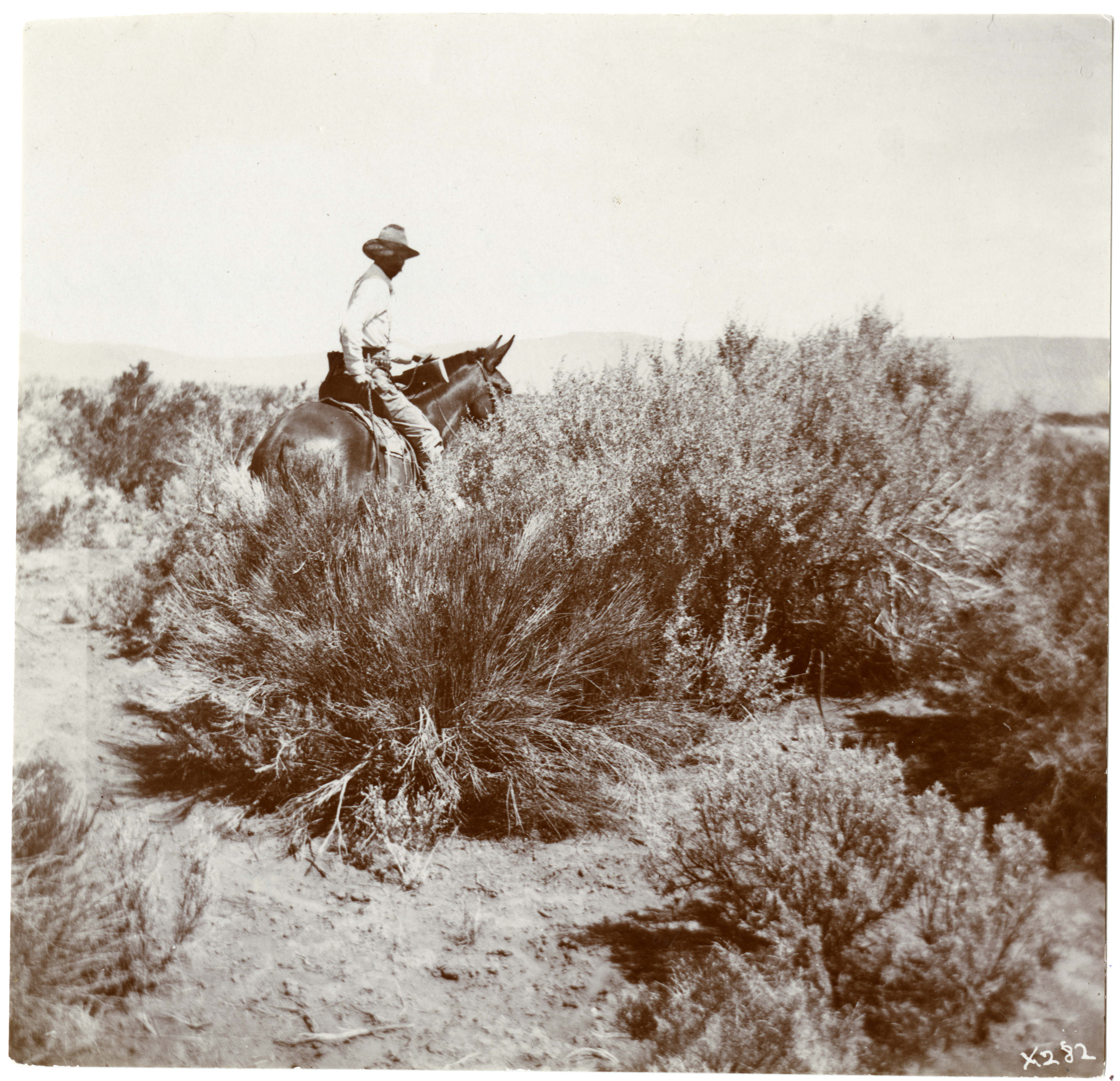 Creator: Vernon Orlando Bailey Local number: SIA2011-1382 Summary: RU 007267, Box 5, Folder 12; Photograph taken for Vernon Orlando Bailey during his work as field naturalist for the United States Department of Agriculture Bureau of Biological Survey or its predecessor, Division of Economic Ornithology and Mammalogy, in Nevada and California in 1898. Dates: 1898 Repository: Smithsonian Institution Archives Related blog post: Summer Reading, like a Specimen Collector View more collections from the Smithsonian Institution.